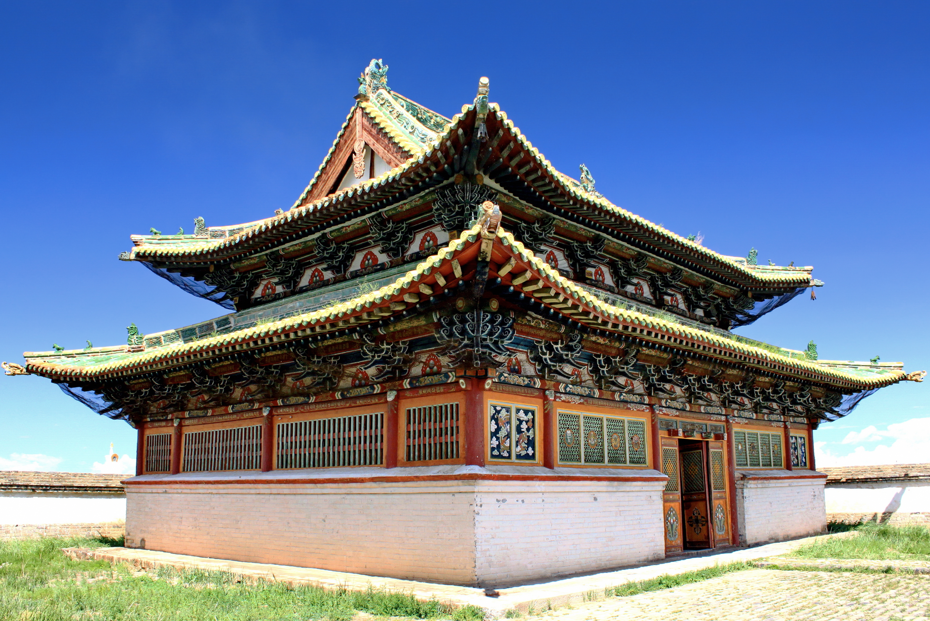 Eastern Temple in the Erdene Zuu Monastery. Built by Erhi Mergen Khan's wife and the Bogdo Lama's mother, temple dedicated to childhood of Buddha. Kharkhorin, Övörkhangai Province, Mongolia.